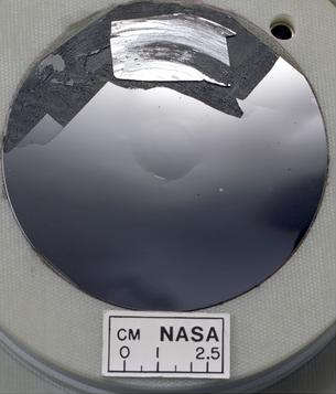 Silicon wafer with mirror finish